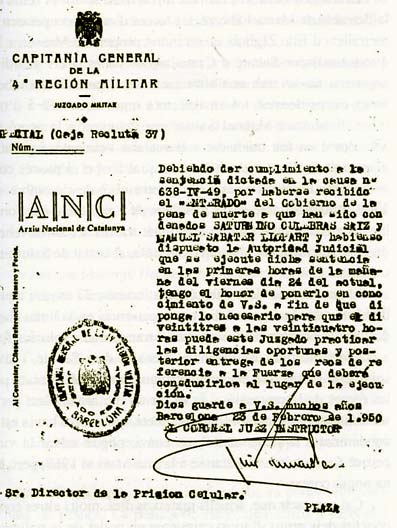 Death sentence of Manuel Sabaté and Saturnino Culebras Ortiz of 1950. The two Maquis were executed in the Campo de la Bota in Barcelona.